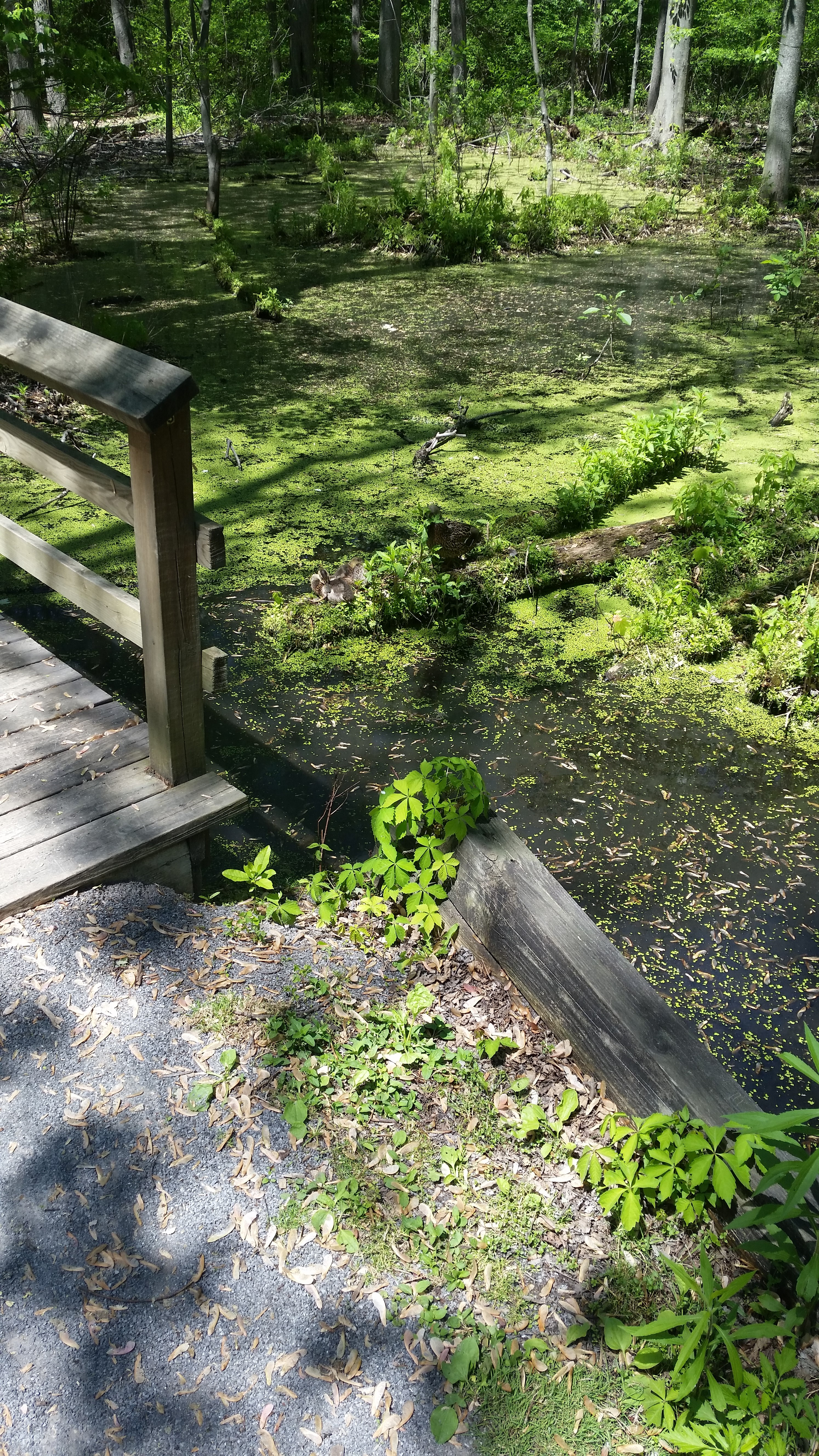 This was taken during the Summer of 2015 when parts of Tinker Park become swampy (don't worry, the trails stay dry and well maintained!). There are some ducks and ducklings. Photo credit is Paul Gallipeau, website is